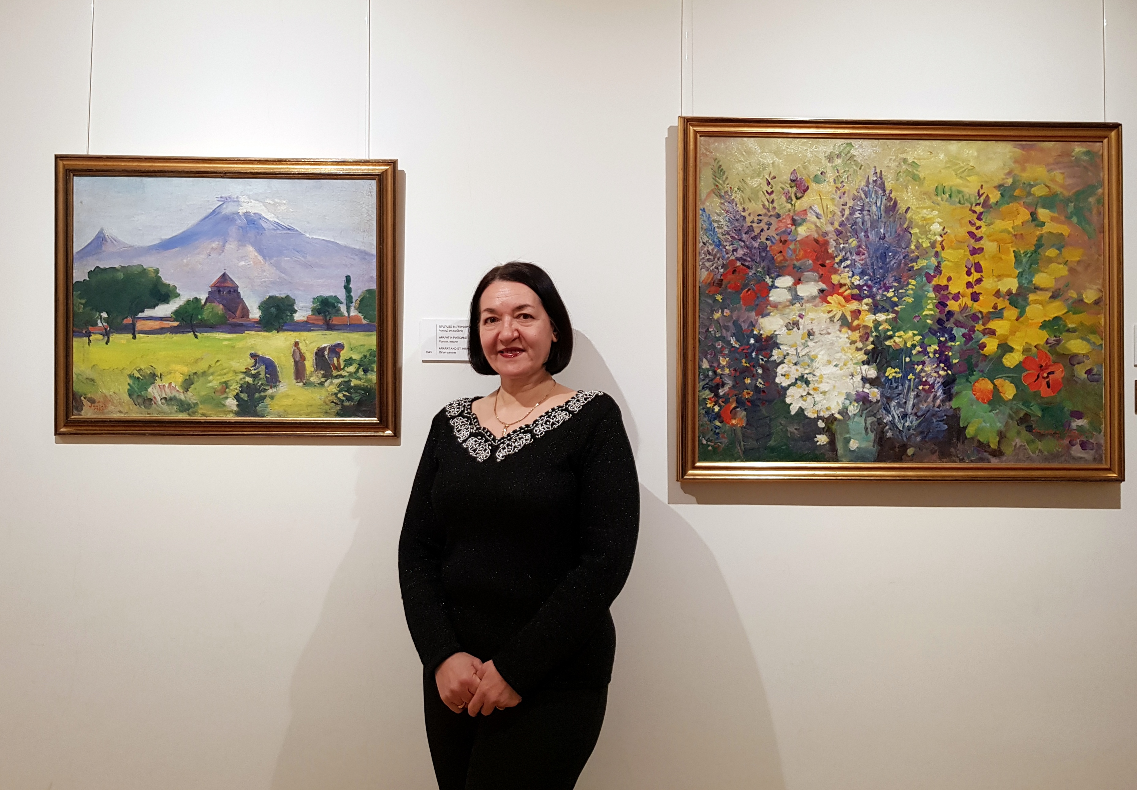 Rouzan Saryan, Director of the Saryan House-Museum, granddaughter of Martiros Saryan